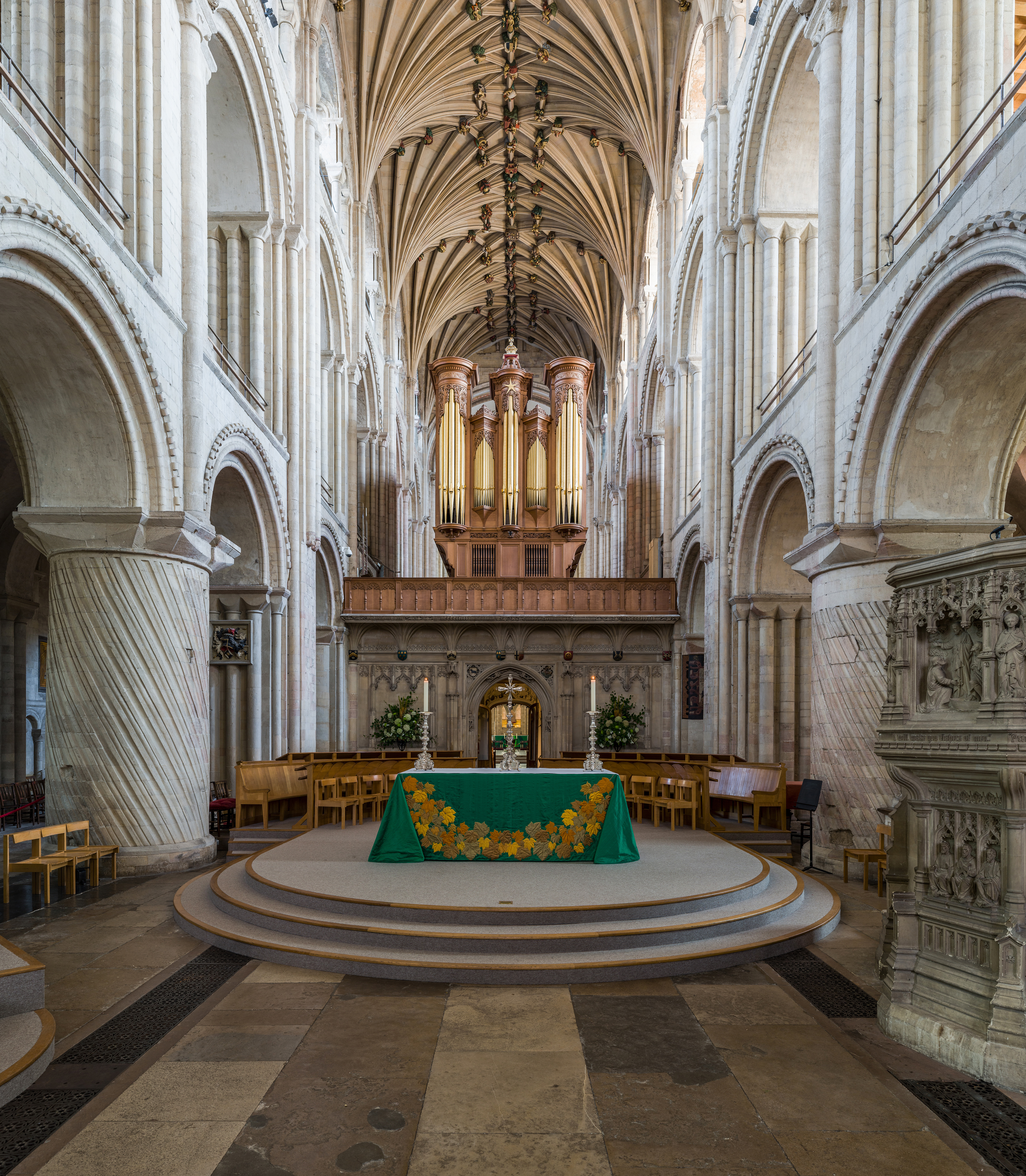 The pulpitum of Norwich Cathedral in Norfolk, England.